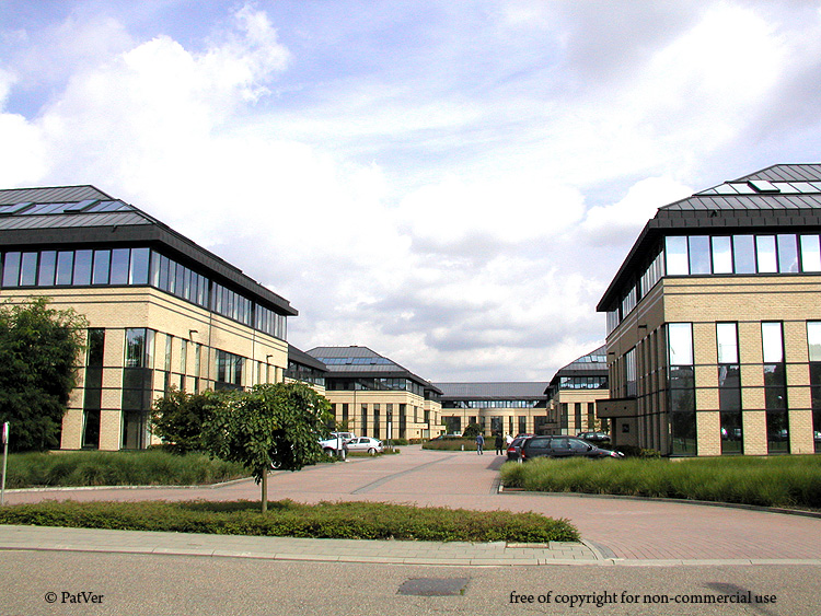 Greenhill Campus, office park located on the Haasrode research park - use of this picture is restricted to Wikipedia